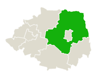 Outline map of Gmina Bielsk Podlaski